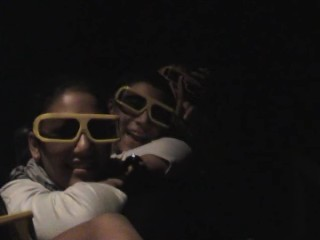 4d movie theatre in Kathmandu, Nepal